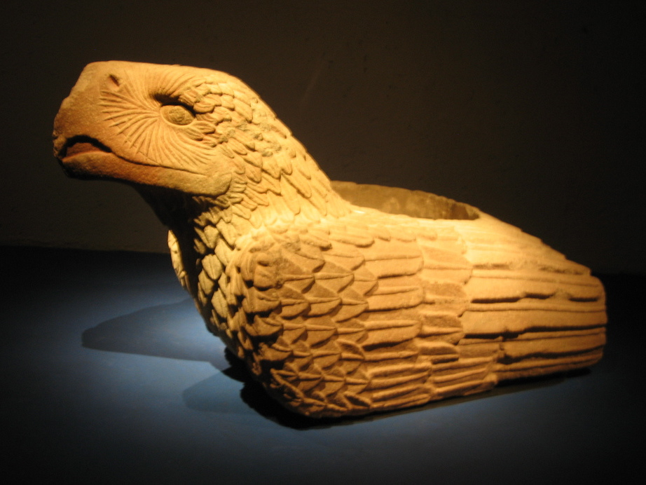 Gorgeous carved stone eagle.